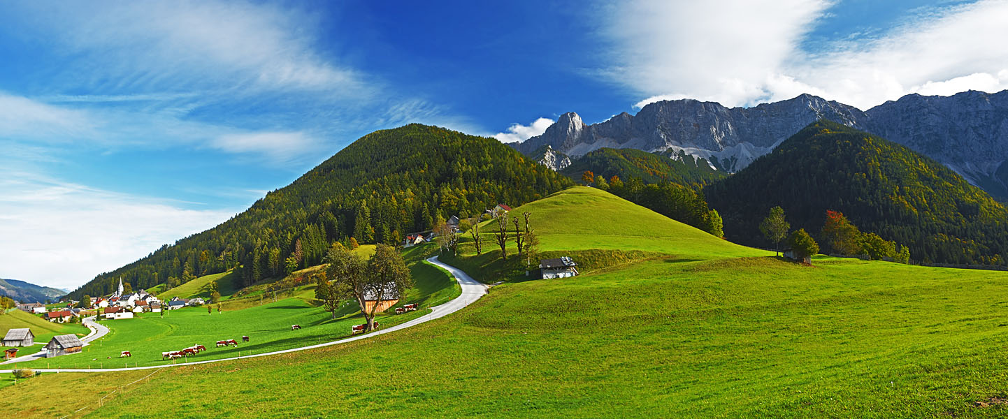 Zell-Pfarre/Sele Fara with the range of Košuta in the Karawanks (2136 m asl), Carinthia, Austria, EU